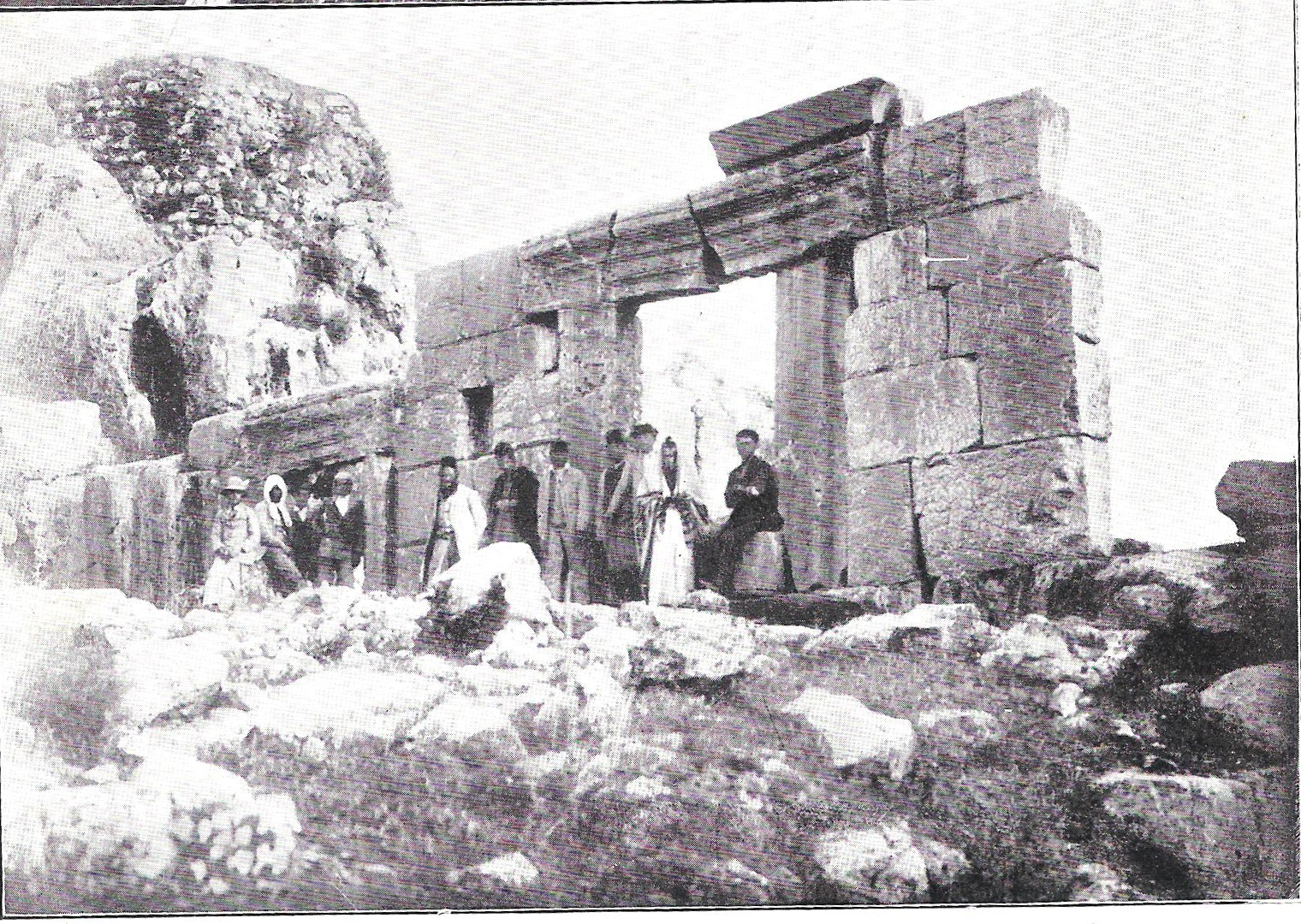 old synagogue of Meron near the grave of Rabbi Shimon bar Yochai - the Jews of Safed believed the Messiah would come if and when the gate of the Meron synagogue fell.